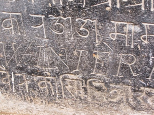 Pratap malla's stone inscription in Kathmandu Durbar Square which he set up in 14 January, 1664. We can clearly discern the English, German or Dutch word WINTER.